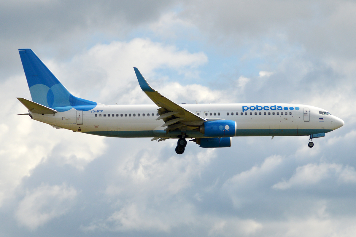 Pobeda Boeing 737-800 at Vnukovo International Airport